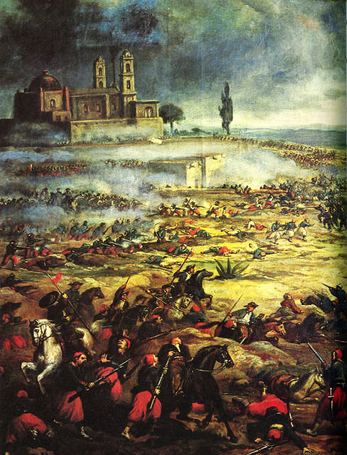 5th May 1862. Depictions of the battle showing Mexican cavalry overwhelming the French troops below the fort at Loreto. Scene recreated by Francisco P. Miranda. Oil on canvas, 1872.